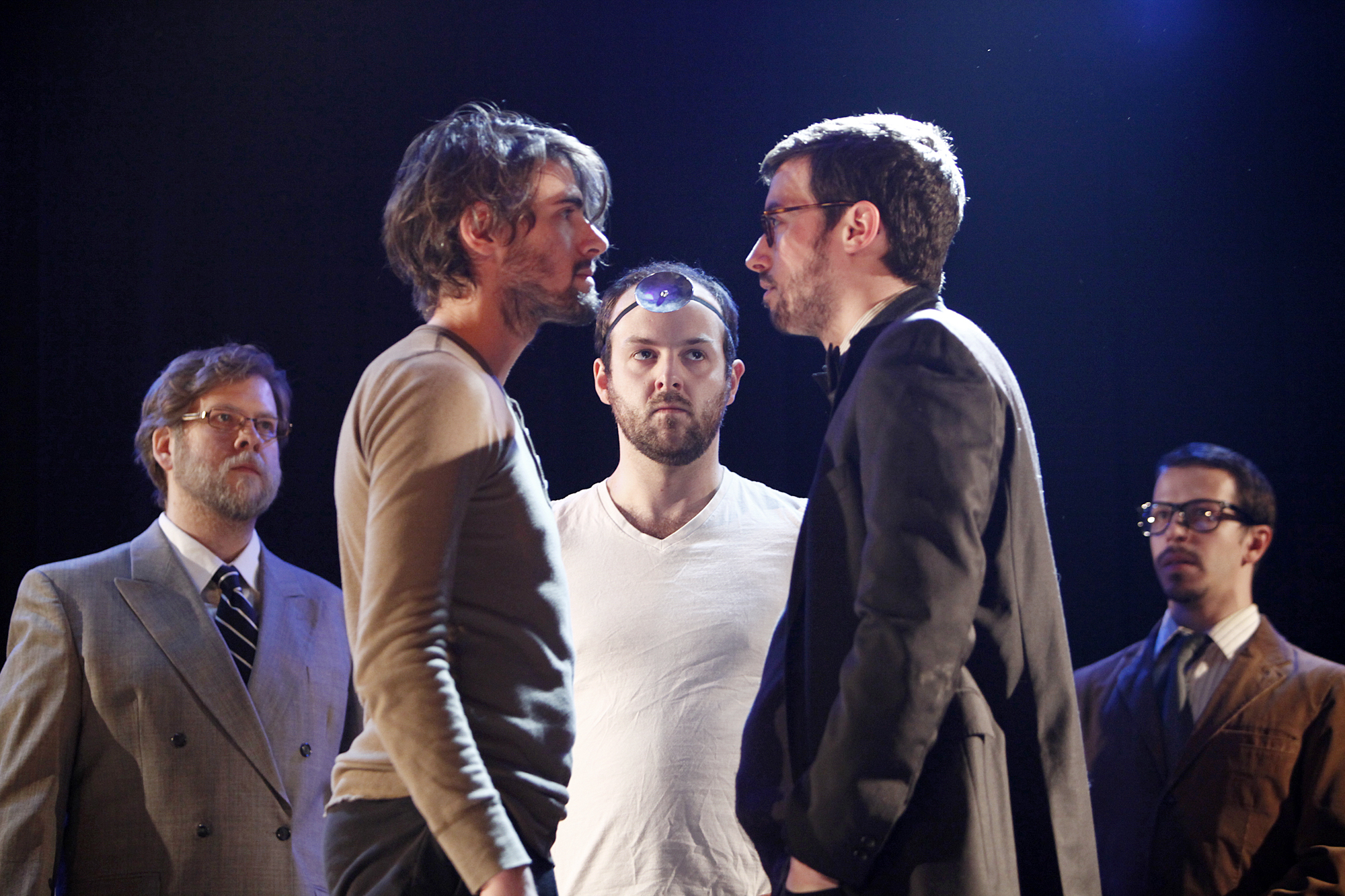 (Didier Lambert, François Gilbert, Martin Boily, Jean-Philippe Durand, Mathieu Bouillon). The Ligue d'improvisation montréalaise (LIM) is a league of improvisational theater based in Montreal, Quebec, Canada.